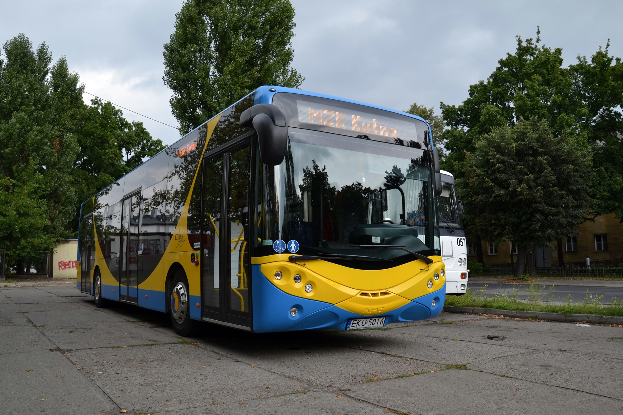 AMZ CS12LF city bus (reg. EKU 50T6) in Kutno, Poland. Built 2011, MZK Kutno operator.